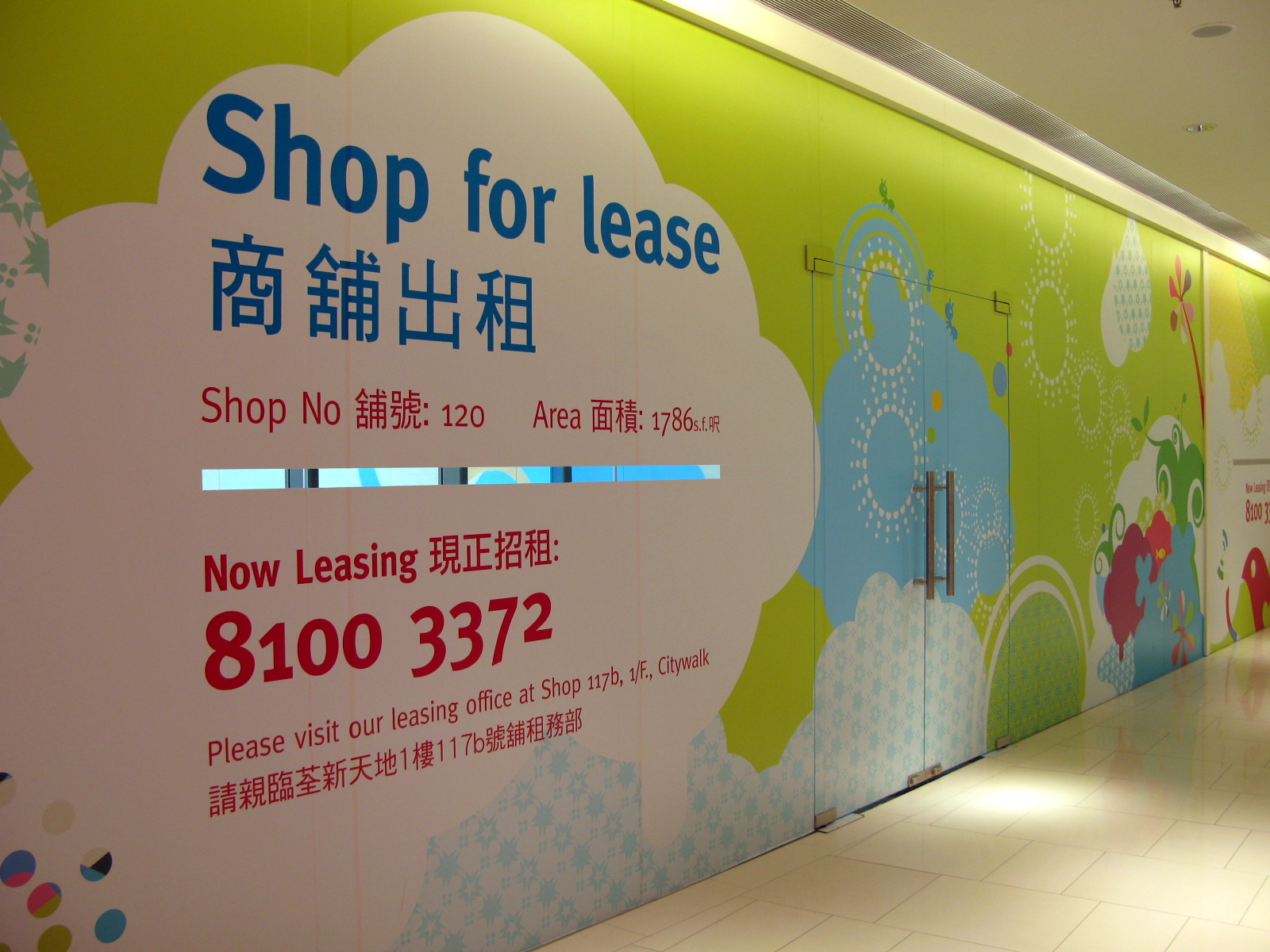 HK Citywalk Shop for lease